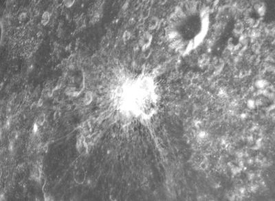 AS17-M-2382 Petit is the crater surrounded by bright ejecta in the center of this frame, the fluted crater to its upper right is Townley. North is roughly to the right in this view.